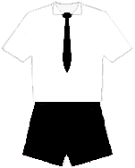 Ticha kit 1913-1919